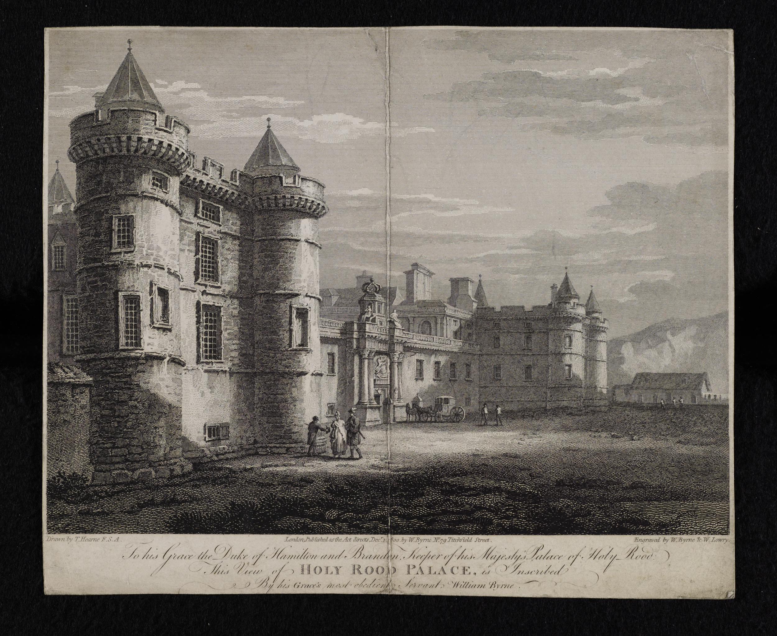 Holy Rood Palace. Engraving by W. Byrne and W. Lowry 1800, after a drawing by T. Hearne 1778. Published Dec 1800. To his Grace the Duke of Hamilton and Branden, Keeper of his Majesty's Palace of Holy Rood